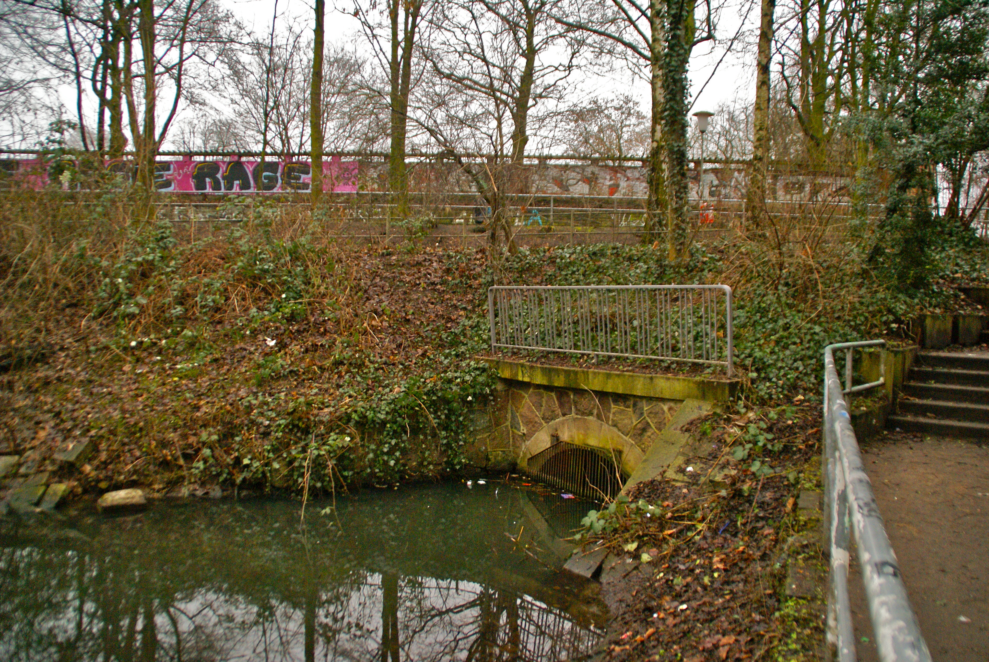 Hamburg (Eimsbüttel), Germany: The Isebek appears after some 1,5 km of underground life